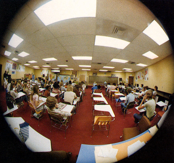 West Orange American History Class 1977